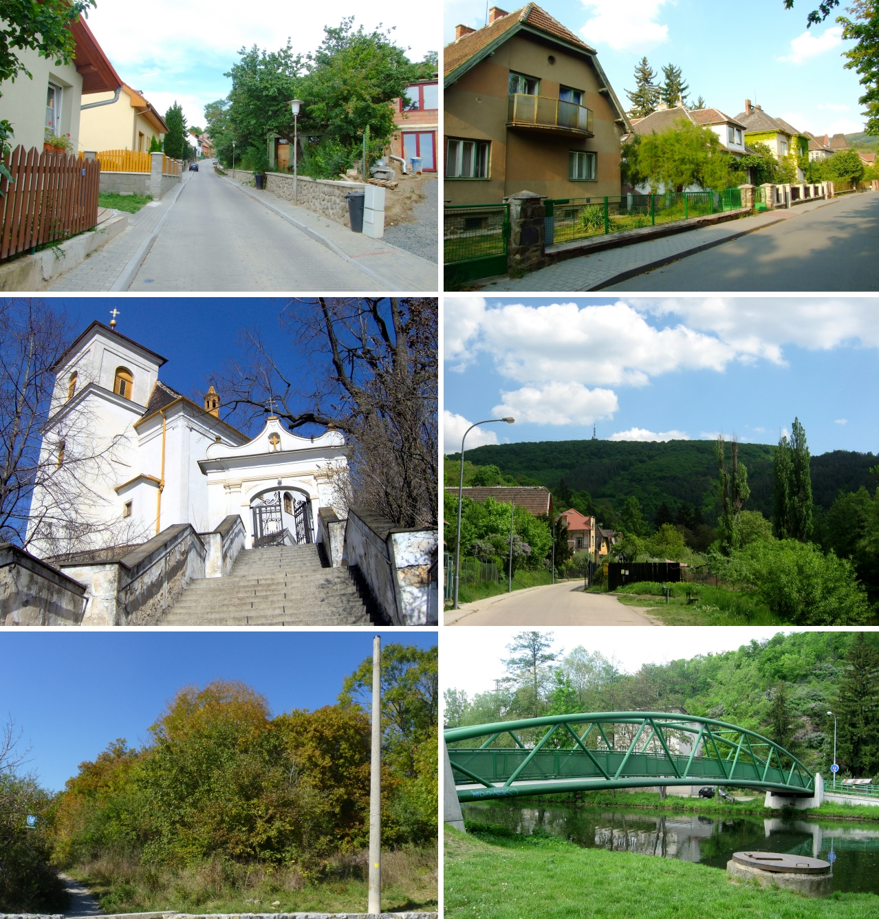 Brno-Obřany - Liští street from south